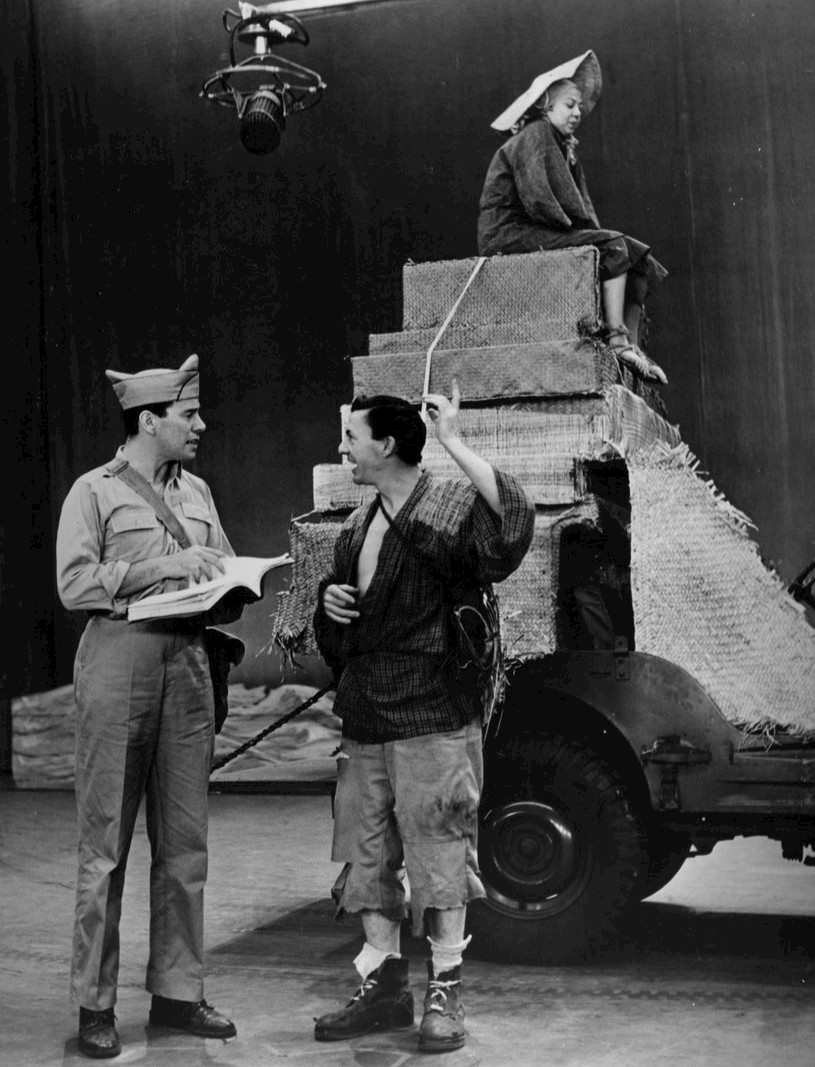 Photo of John Forsythe as Fisby and David Wayne as Sakini in the 1954 Broadway production of The Teahouse of the August Moon. They are shown rehearsing a segment of the play for Ed Sullivan's Toast of the Town television program.